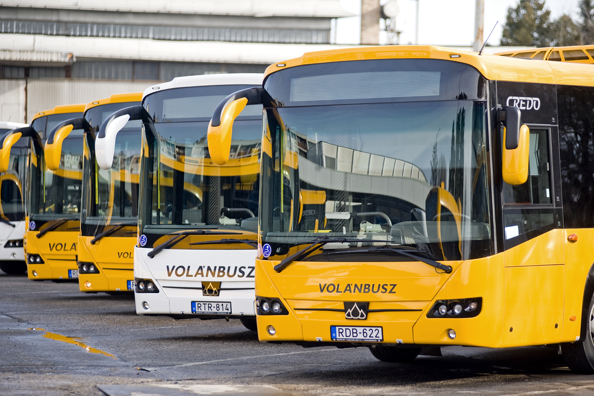 Credo buses of Volánbusz at the bus station of Gödöllő